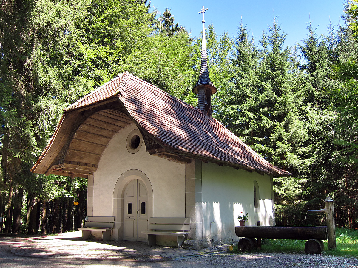 Buechenchaeppeli Chapel near Brünisried, Canton Fribourg, Switzerland